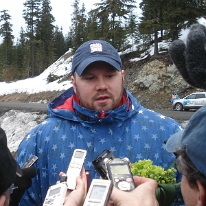 USA-1 bobsled driver Steve Holcomb talks to the media at the 2010 Winter Olympics.